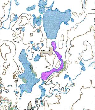 East Okoboji Lake in the Iowa Great Lakes region. Based on original public domain map courtesy of USGS. © 2004 Matthew Trump .